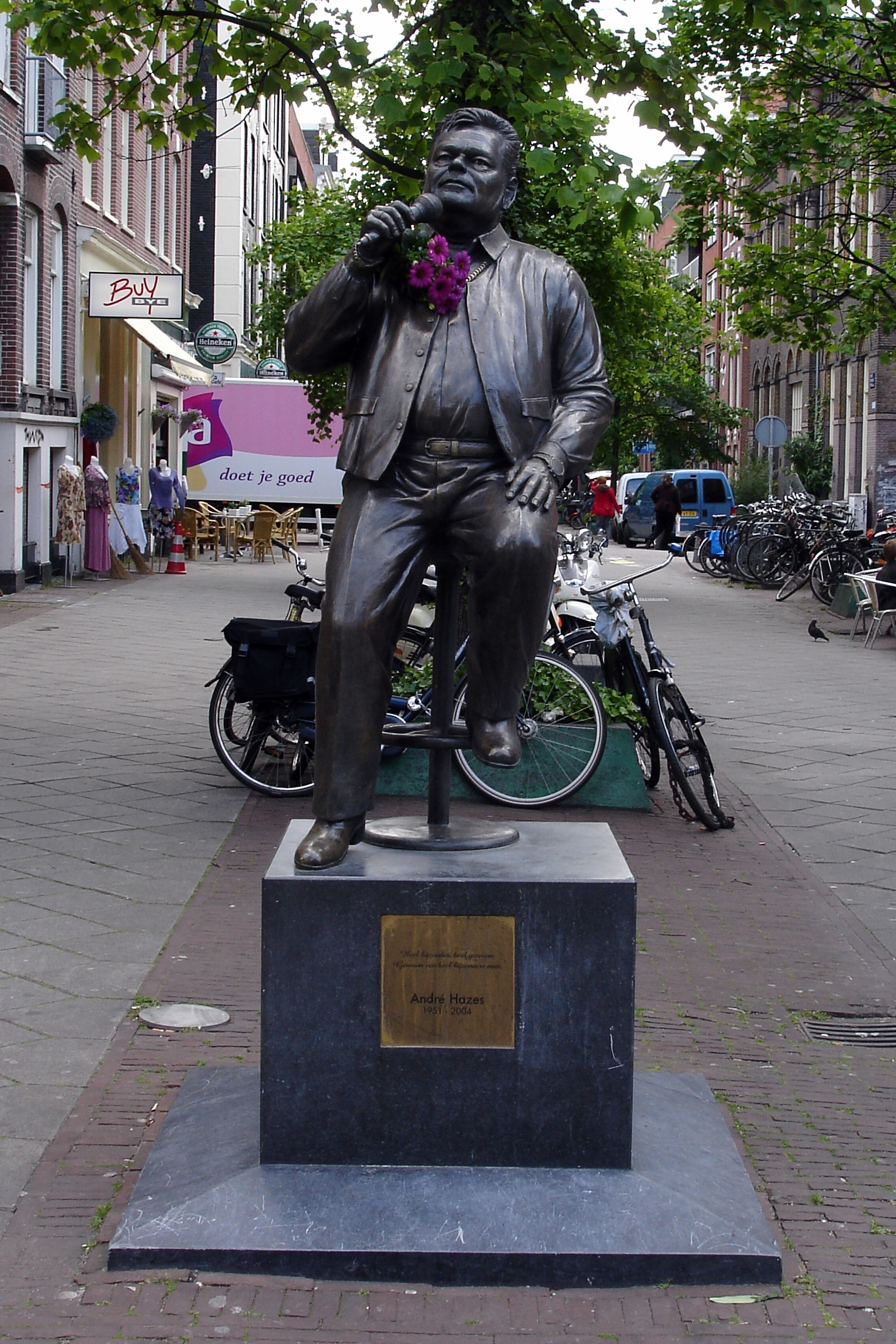 Sculpture André Hazes by an unknown sculptor (China?), Albert Cuypstraat in Amsterdam/The Netherlands